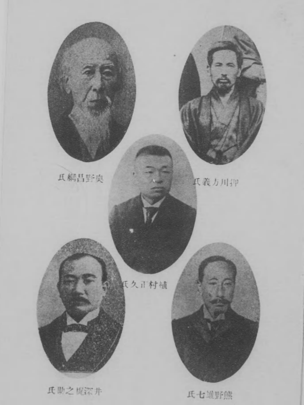 Nihon Christ Church minister